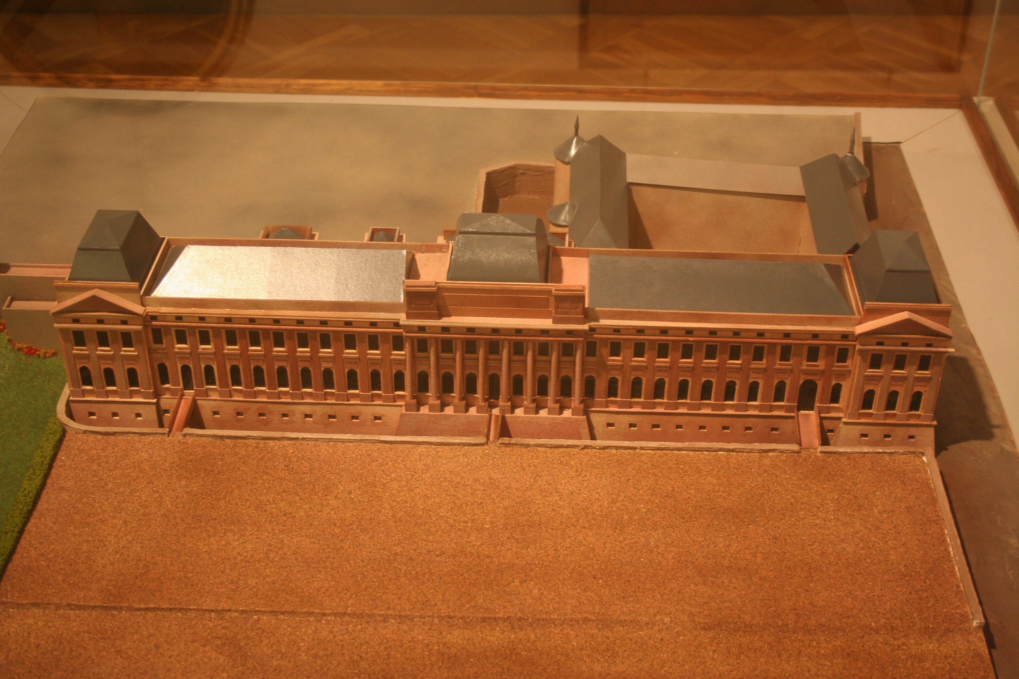 Model of the castle in the end of the 18th century, Saverne museum.